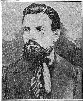 French politician Z. Camélinat in 1854, public domain image.